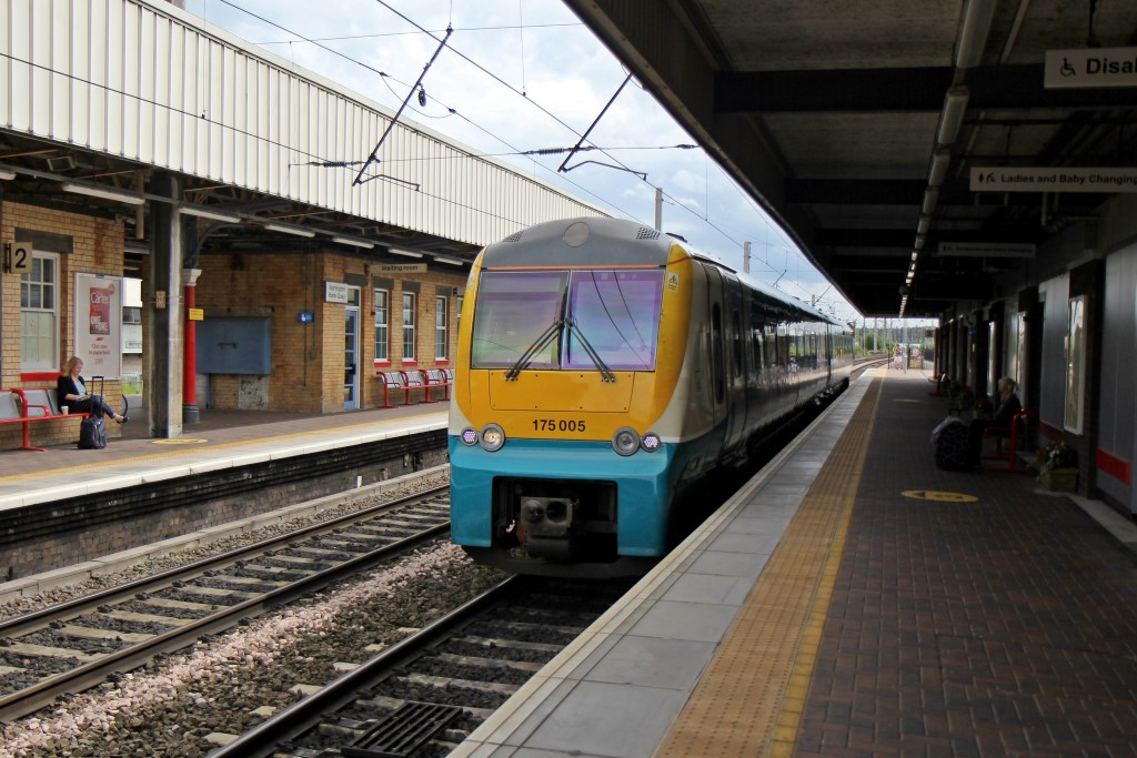 Arriva Trains Wales Class 175, 175005, Warrington Bank Quay railway station